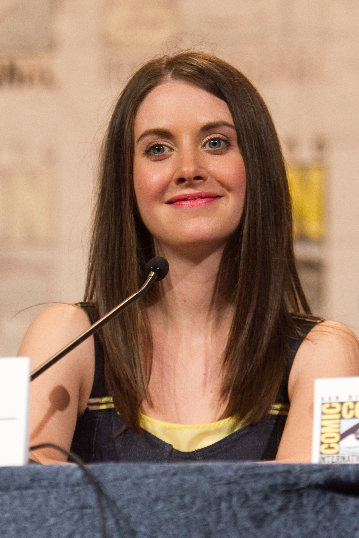 Alison Brie at Comiccon 2010